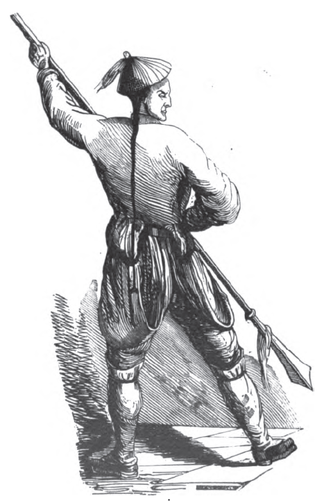 Chinese spearman.